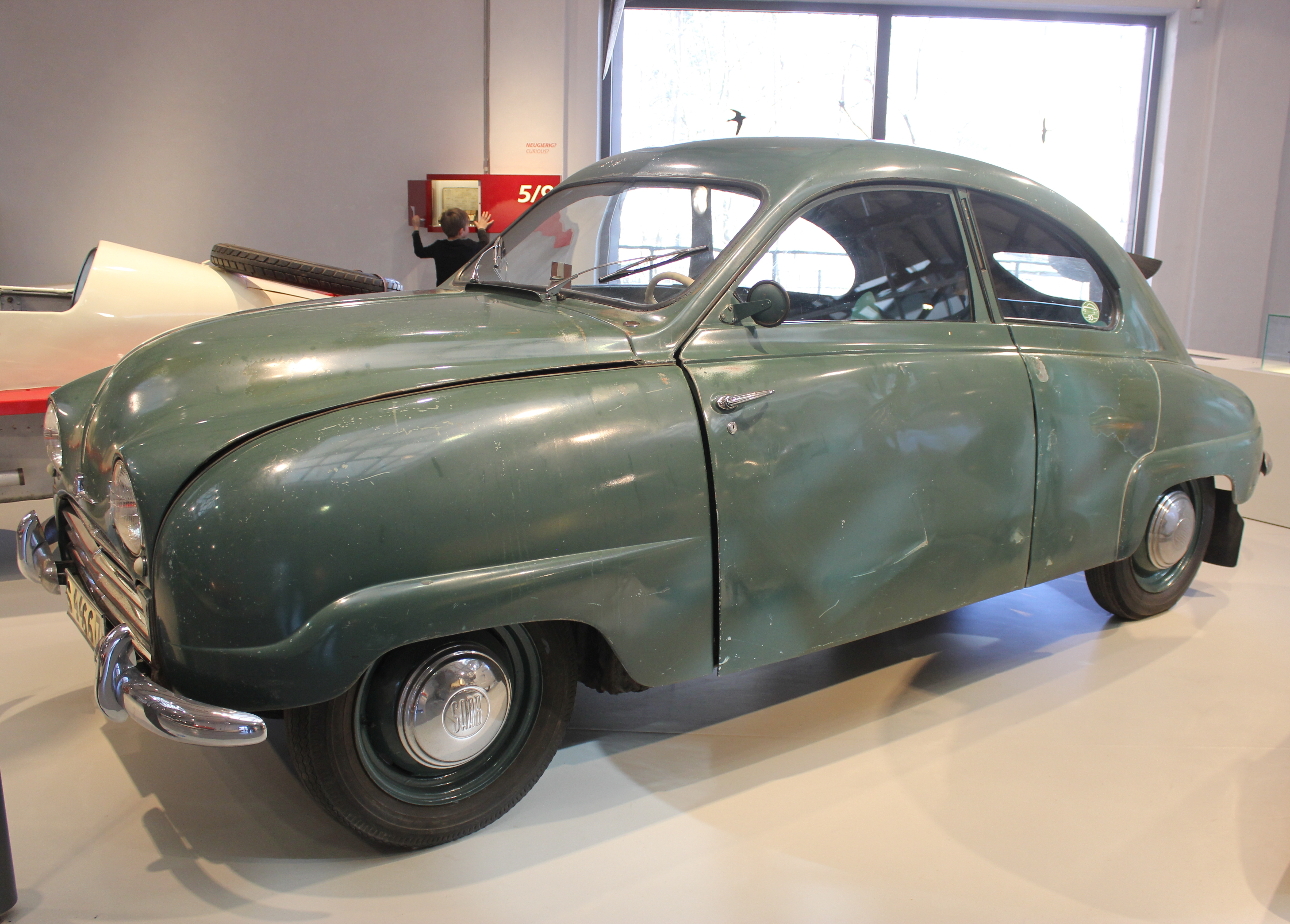 Berlin - German Museum of Technology - Saab 92 A (1952)